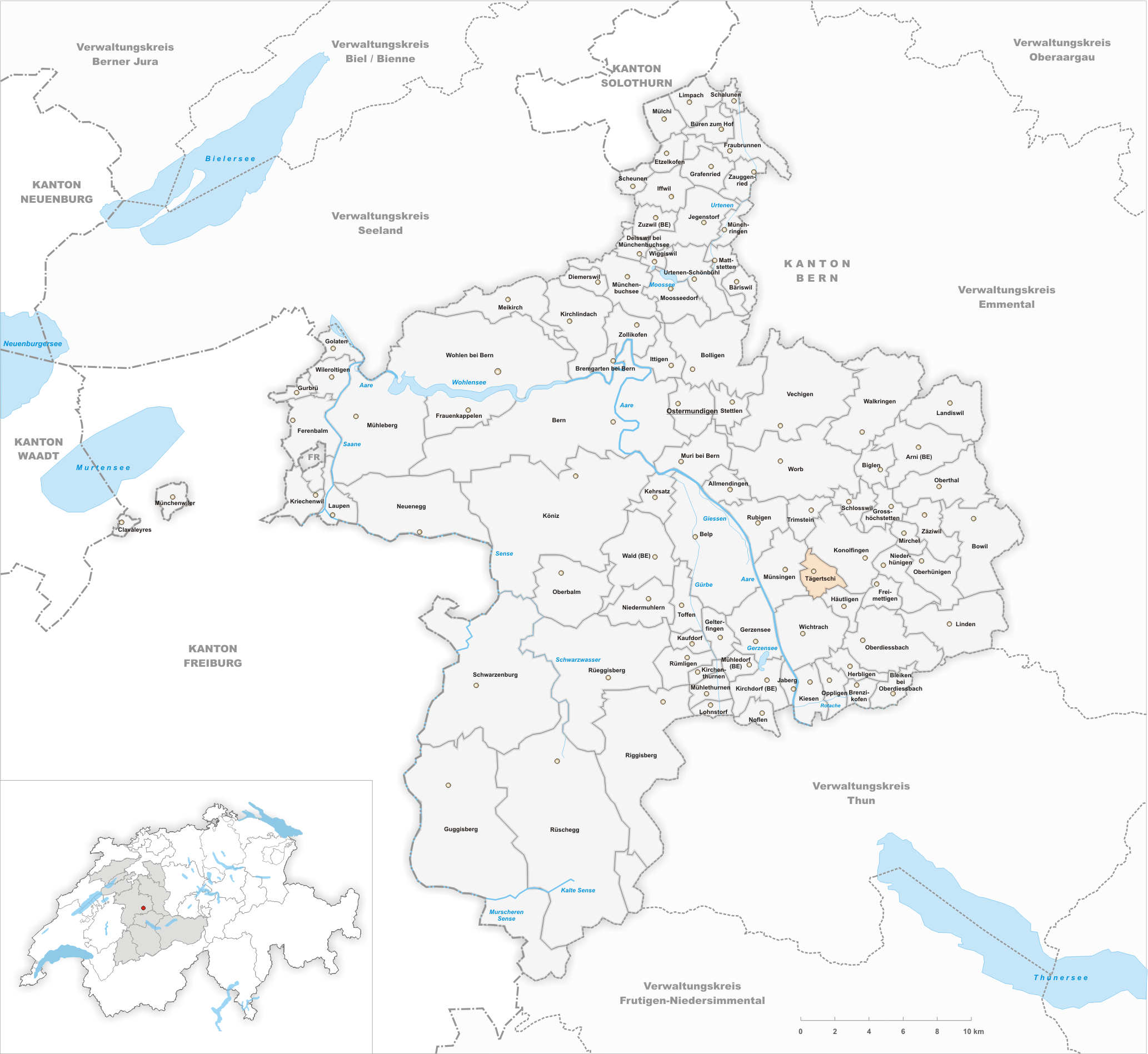 Municipality Tägertschi